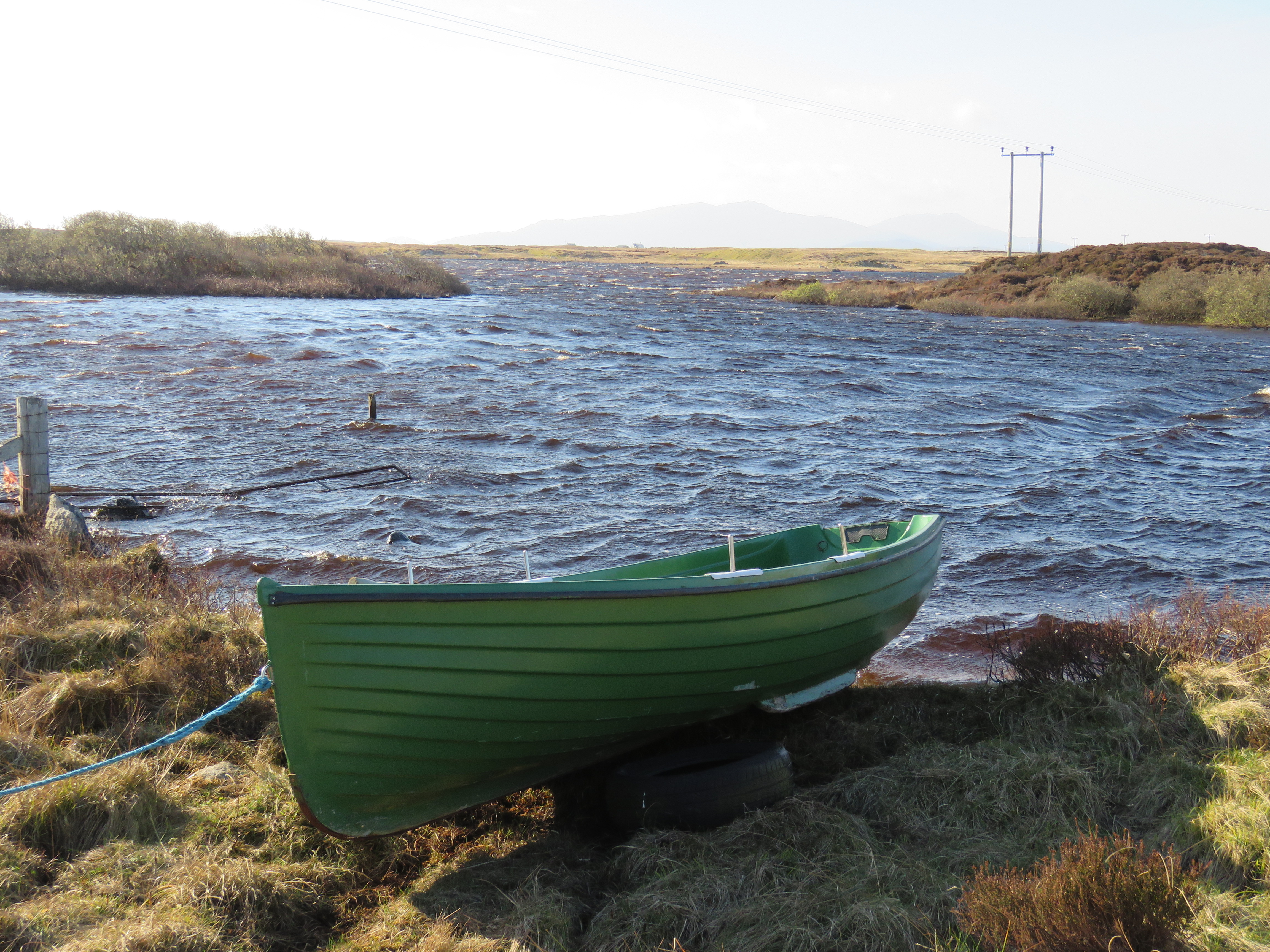 boat beside Loch Olabhat, Benbecula